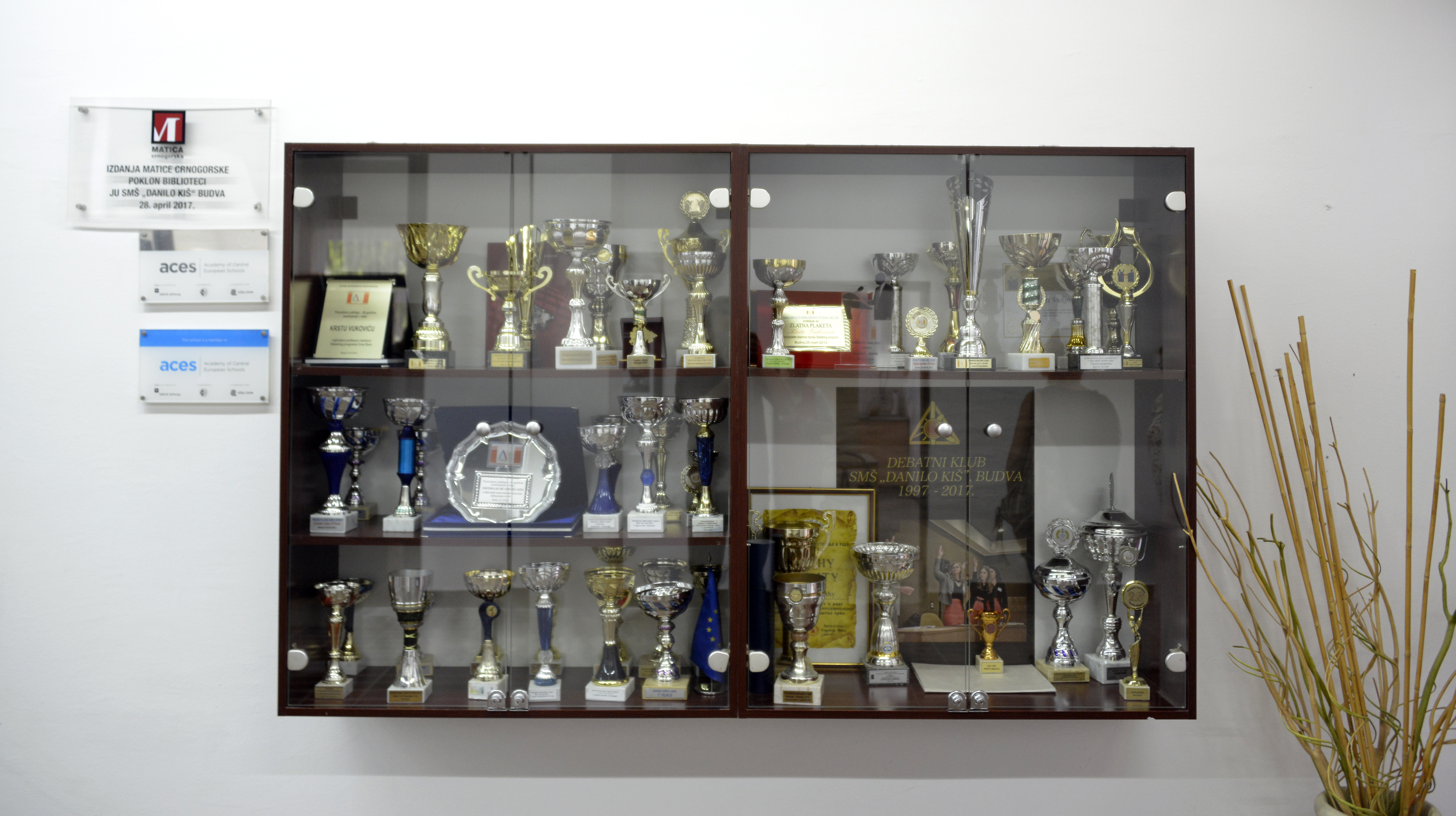 High school "Danilo Kiš" in Budva, Montenegro - prizes and awards